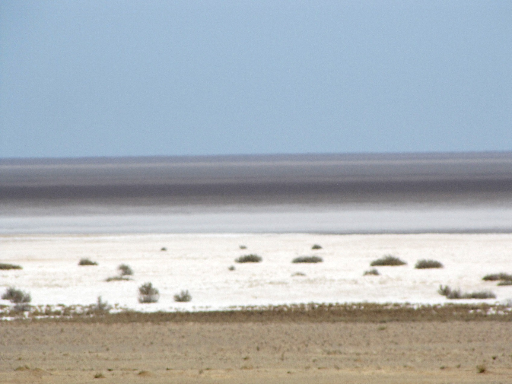 Desert Of Qom (Namak Lake)